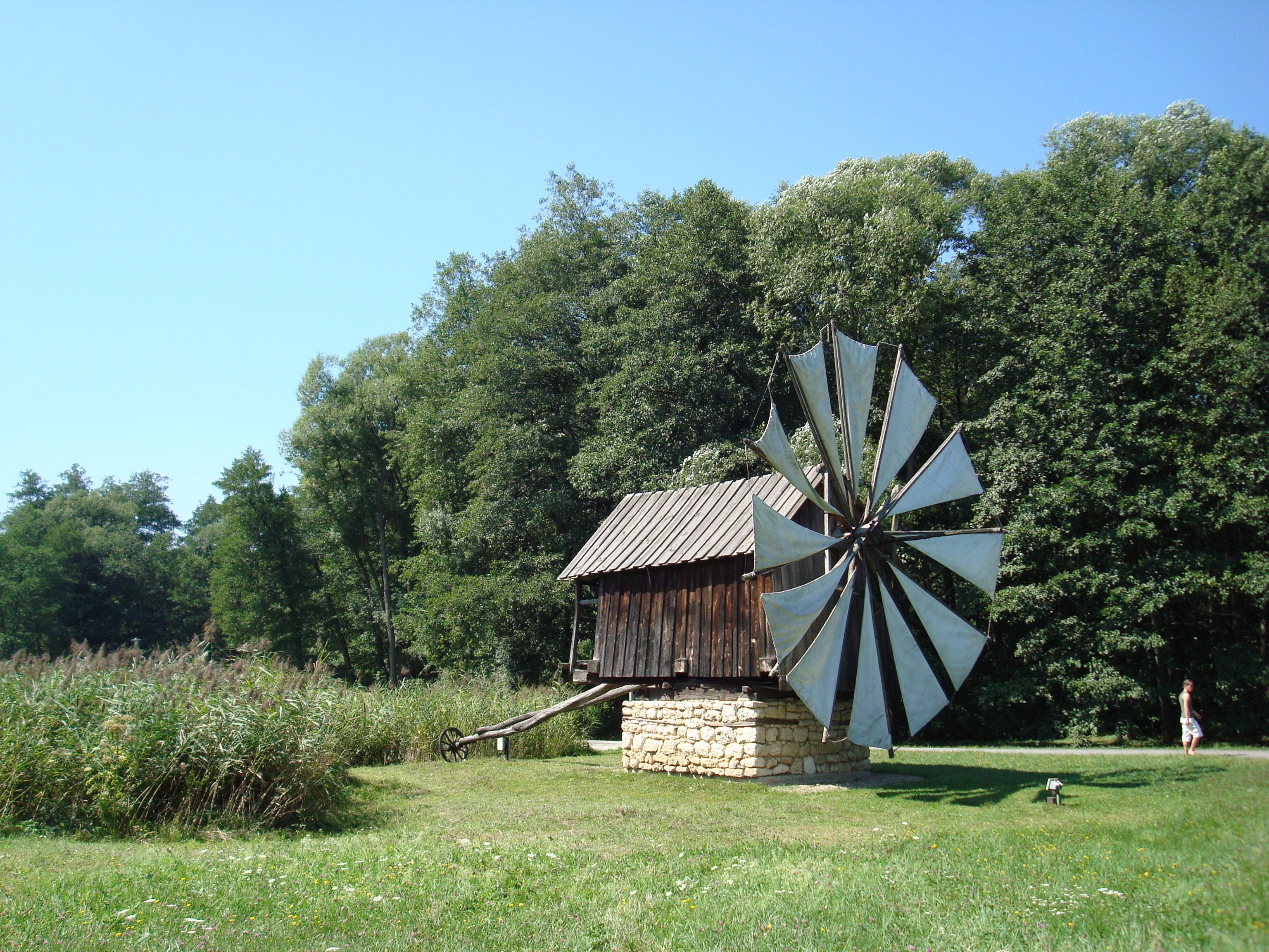 National Museum Complex "ASTRA" in Sibiu- The windmill